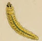 Stainton’s Natural History of the Tineina (1855–1873): Stigmella centifoliella